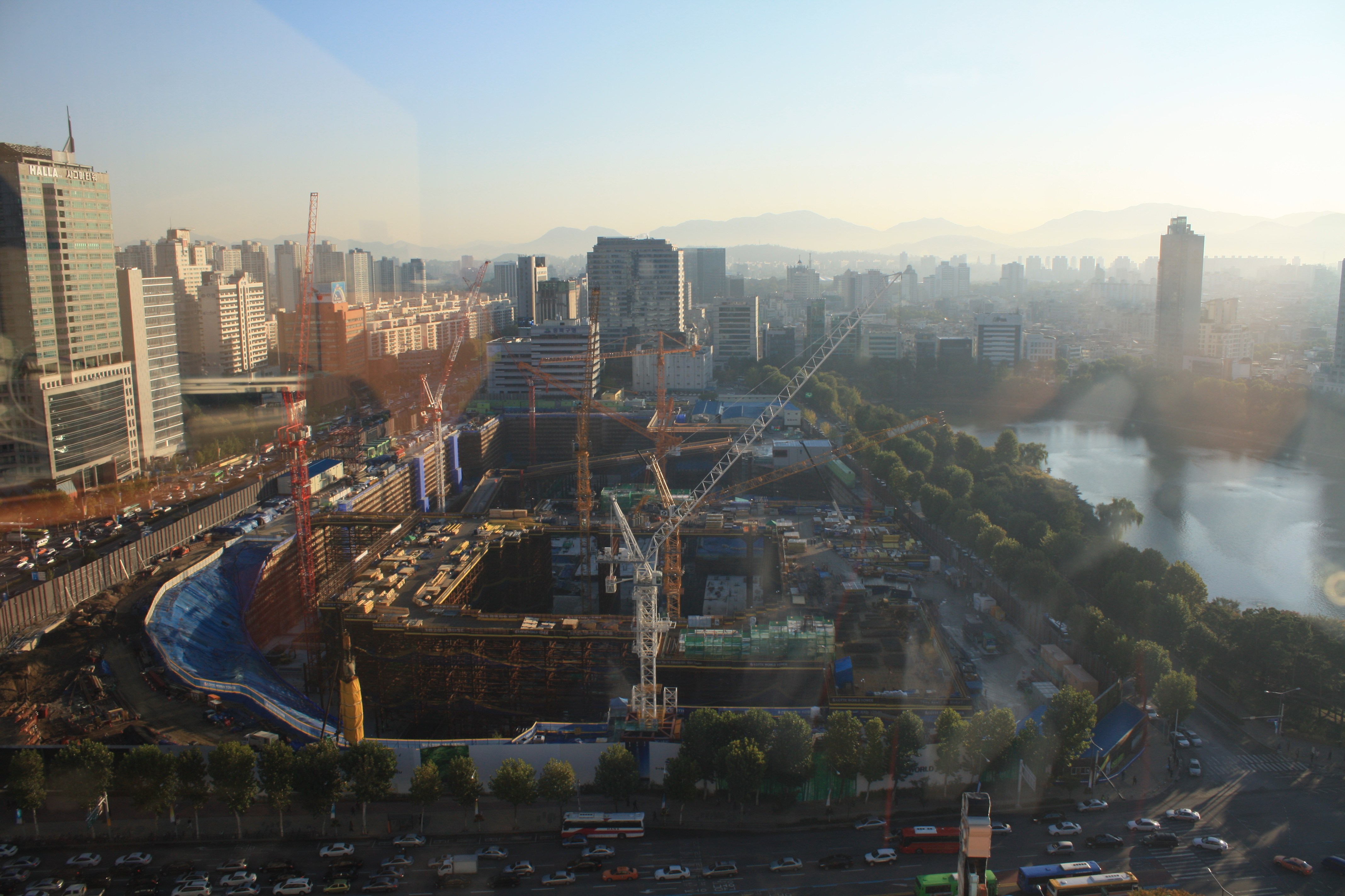 Lotte World Premium Tower under construction in October 2011